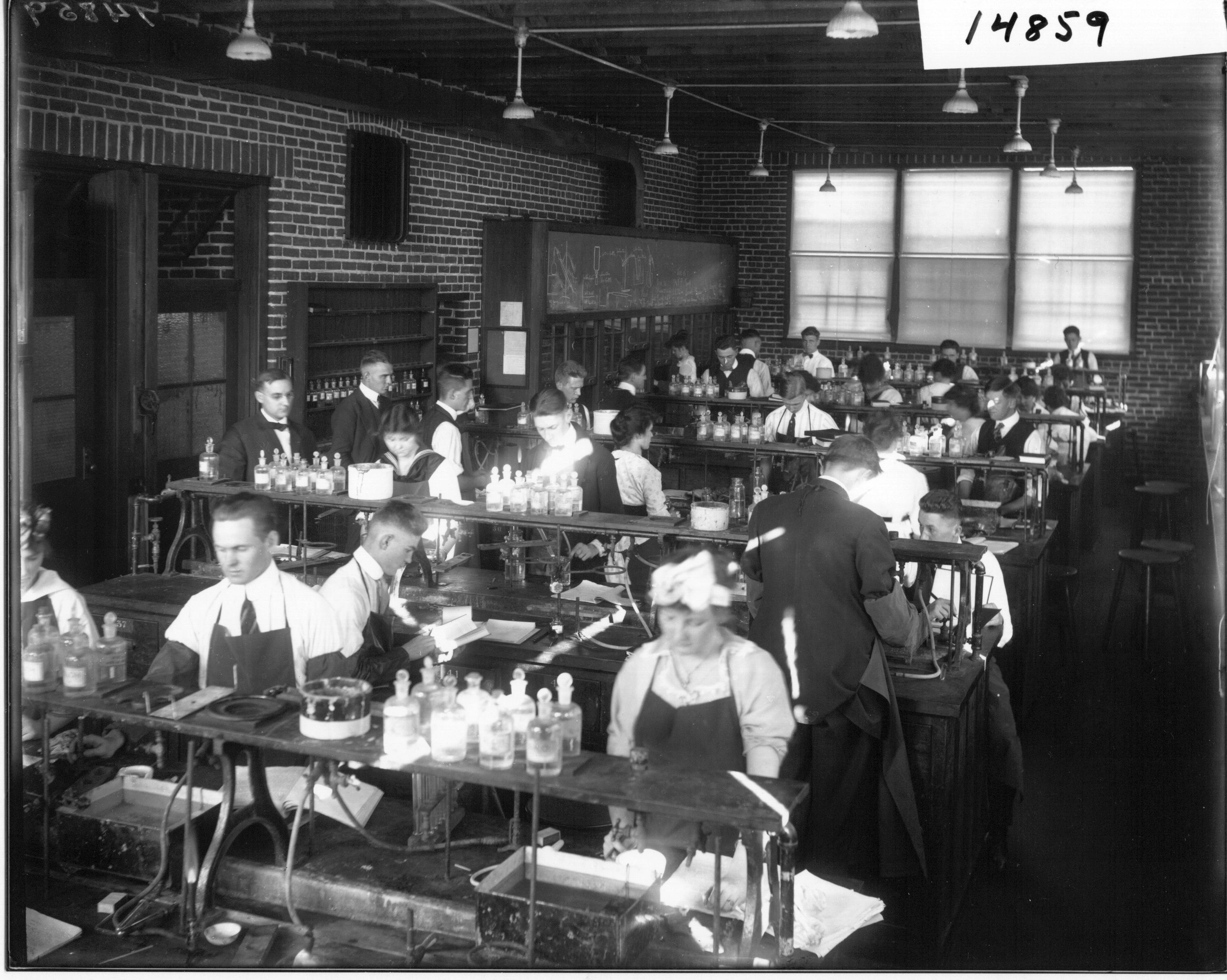 Persistent URL: Subject (TGM): Chemistry; Laboratories; Students; Classrooms; Universities and colleges; Location: Oxford, Ohio Men and women students working in laboratory.